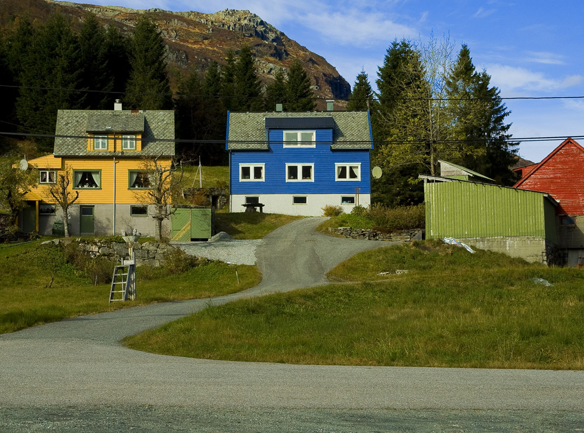 Typical Norwegian rural houses. Picture taken in Samnanger municipality.